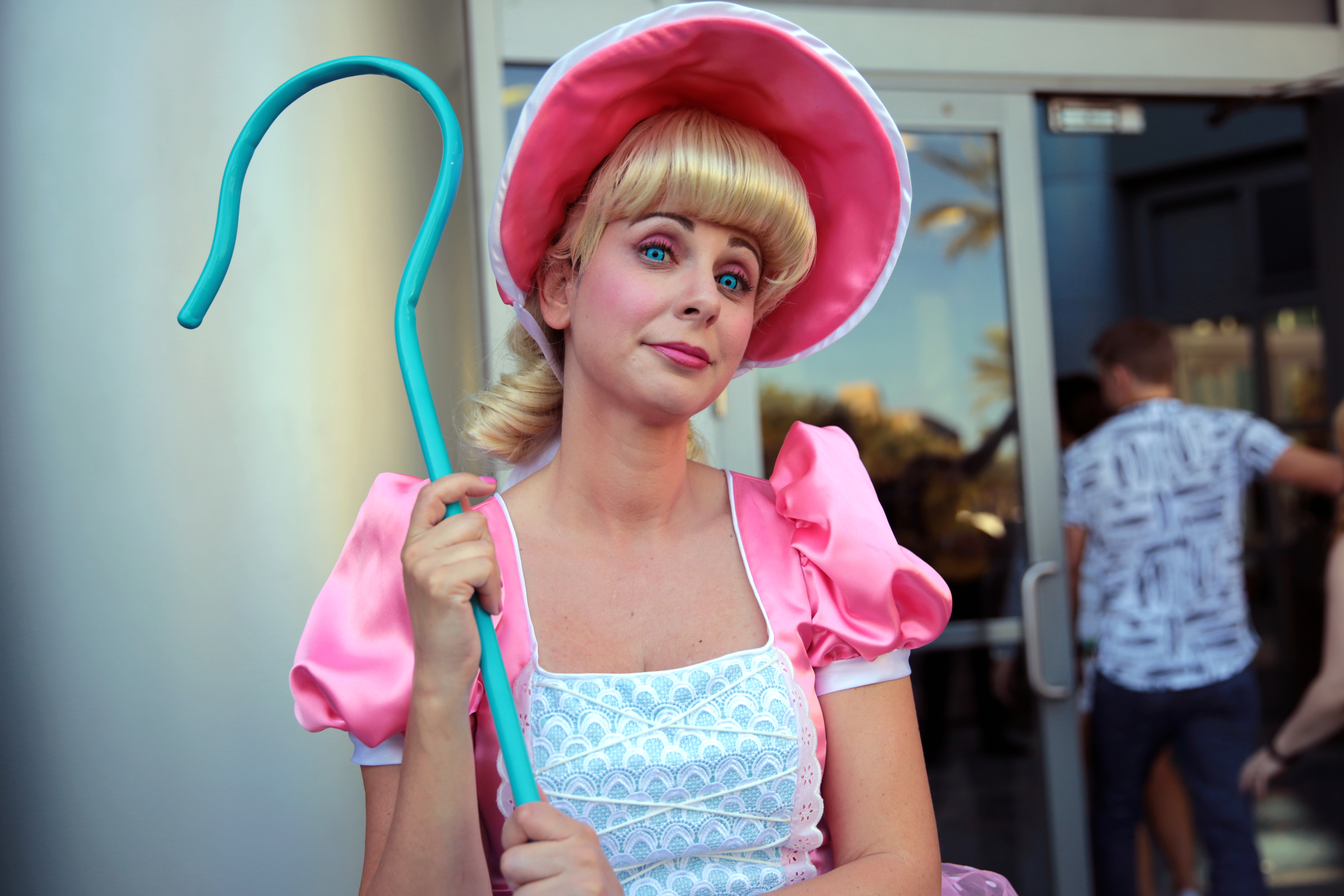 Little Bo Peep cosplayer at the 2017 WonderCon at the Anaheim Convention Center in Anaheim, California.